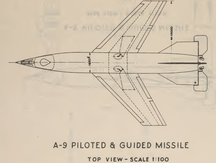 Top view of the planned Aggregat 9 (A9) winged piloted or guided rocket